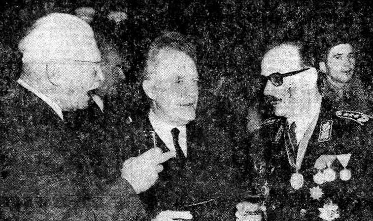 Jaka Avšič, Sergej Kraigher, Franc Poglajen.